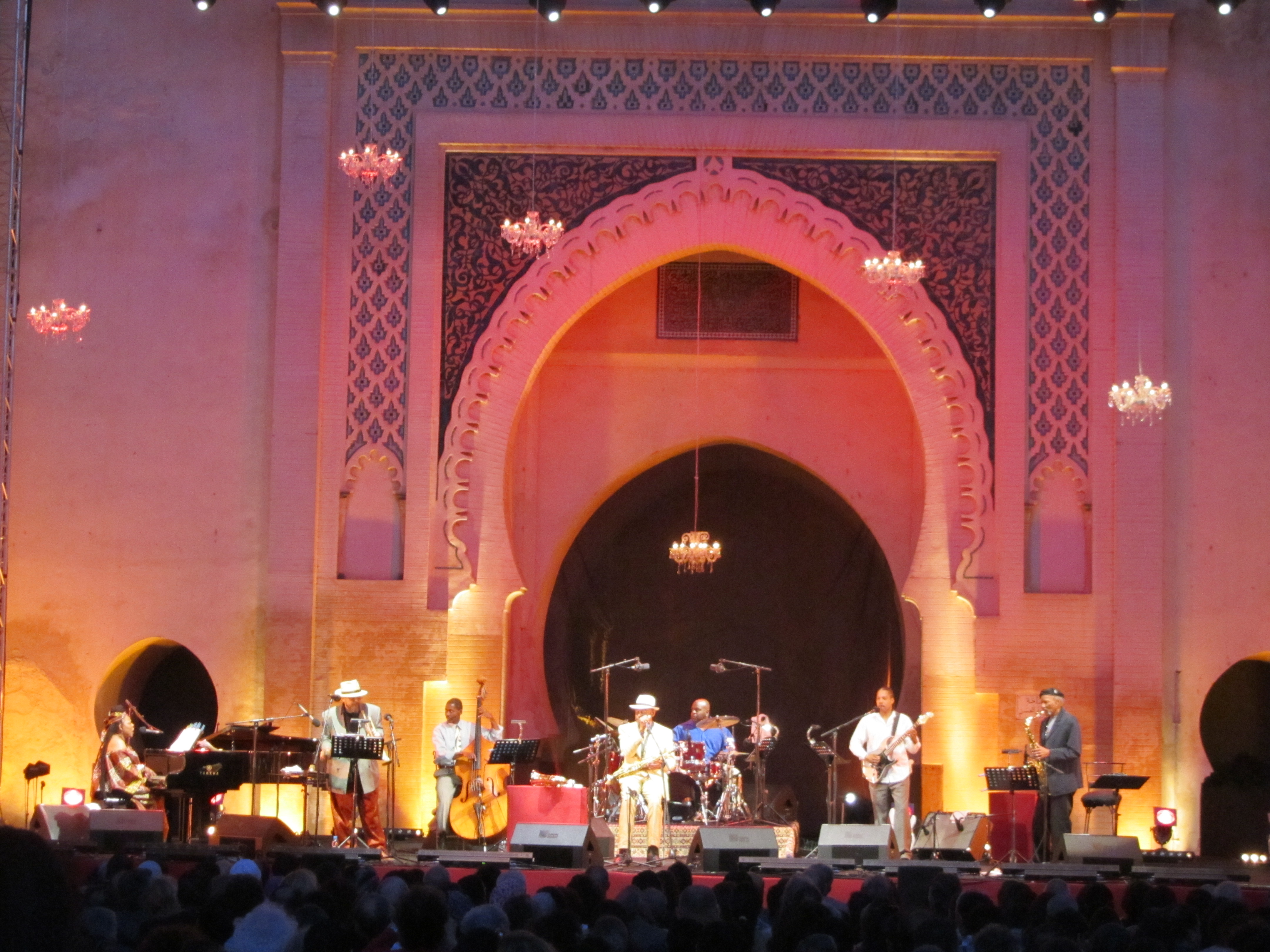 Performance of Archie Shepp in the 18th edition of the Fes Festival of World Sacred Music